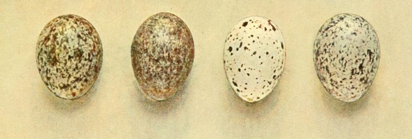 Eggs of Passer ammodendri collected by Nikolai Zarudny in Transcaspia